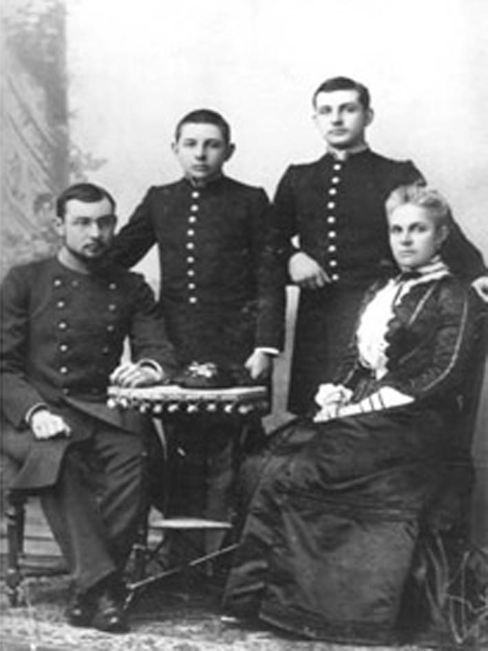 Anna Kaptsova (1880-1927), a Russian merchant, and sons Nikolay Mikhail and Sergey